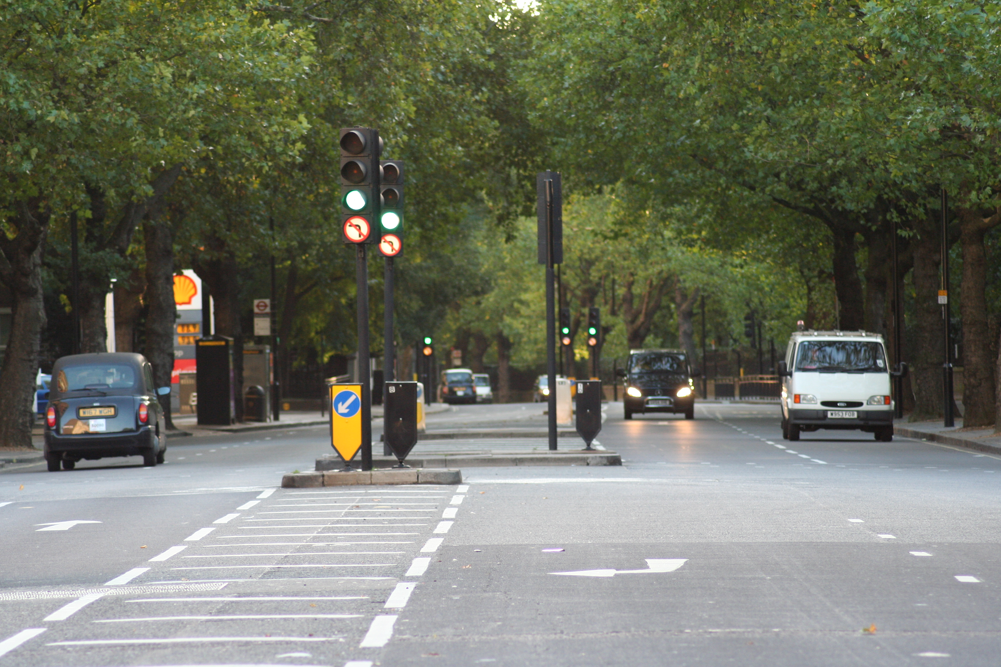 A view of Bayswater Road in London